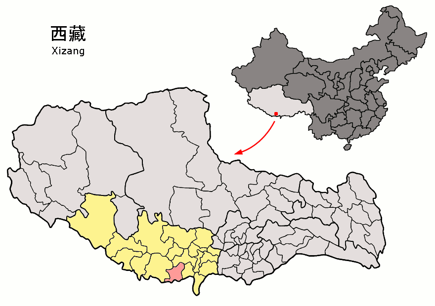 Location of Dinggyê County (pink) and Xigazê Prefecture (yellow) within Tibet (Xizang) autonomous region of China